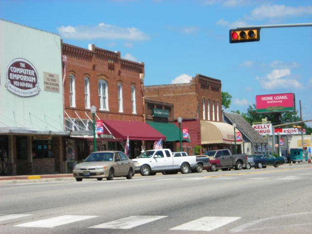 Downtown Mineola, Texas. Photo by Danny Burton, 06/05/06.